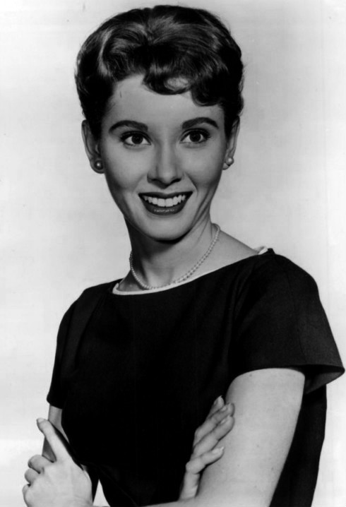 Publicity photo of actress Elinor Donahue from an appearance on the television program Goodyear Theater.